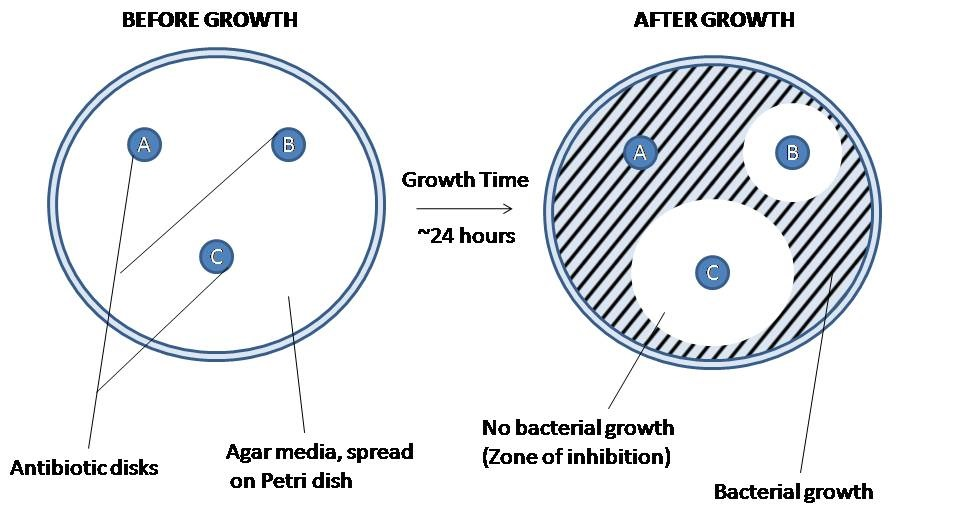 The disk diffusion agar method tests the effectiveness of antibiotics on a specific microorganism. An agar plate is first spread with bacteria, then paper disks of antibiotics are added. The bacteria is allowed to grow on the agar media, and then observed. The amount of space around each antibiotic plate indicates the lethality of that antibiotic on the bacteria in question. Highly effective antibiotics (disk C) will produce a wide ring of no bacterial growth, while an ineffective antibiotic (disk A) will show no change in the surrounding bacterial concentration at all. The effectiveness of intermediate antibiotics (disk B) can be measured using their zone of inhibition. This method is used to determine the best antibiotic to use against a new or drug-resistant pathogen.